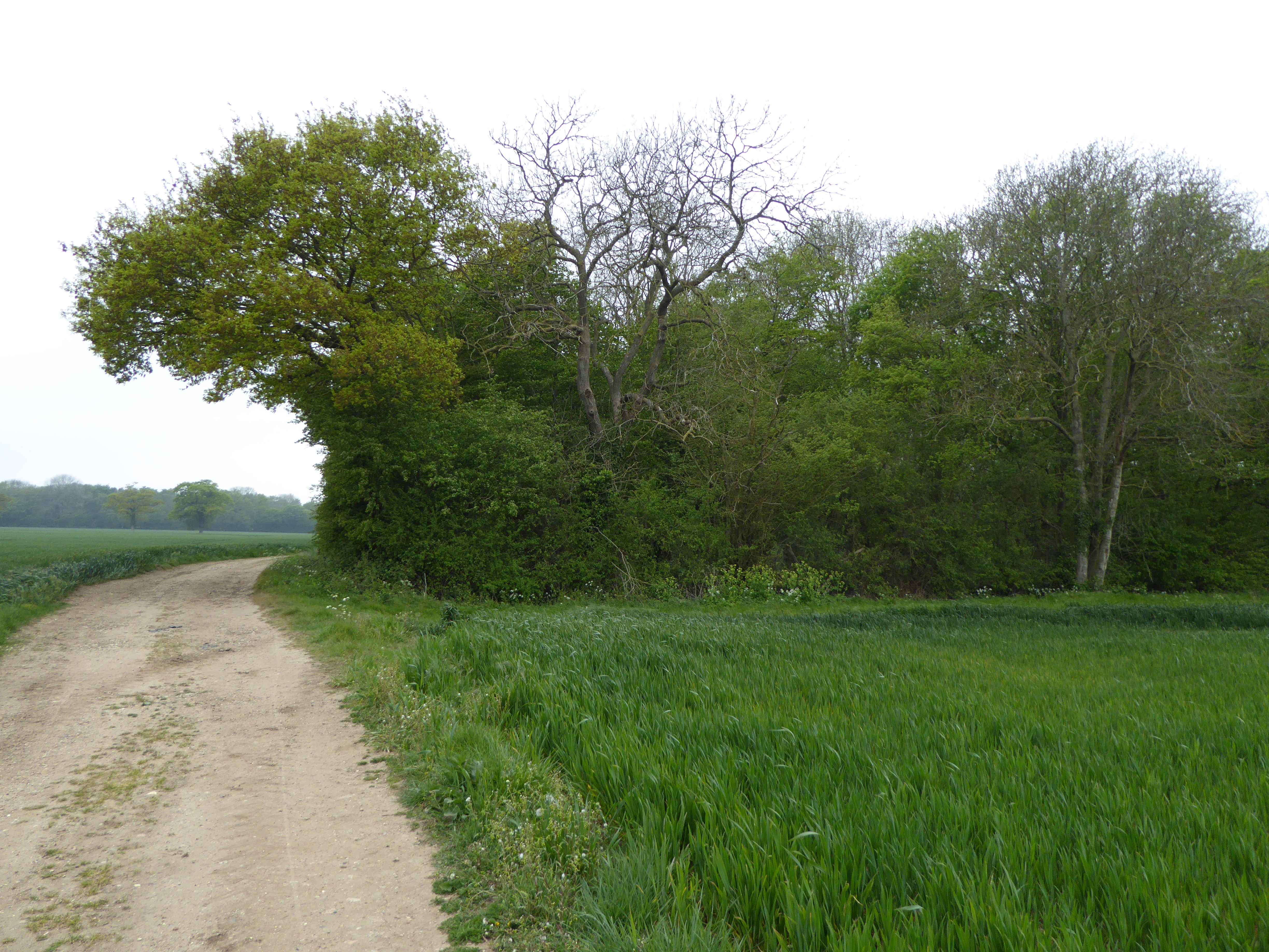 Packway Wood is part of Abbey Wood, Flixton, biological Site of Special Scientific Interest south-west of Bungay in Suffolk.